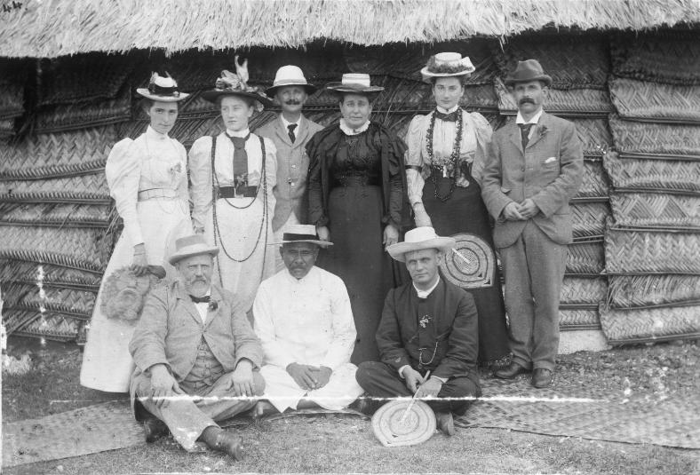 Richard John Seddon and party in Samoa, 1897 Black and white print Reference No. PA1-o-545-37-2 Photographic Archive, Alexander Turnbull Library